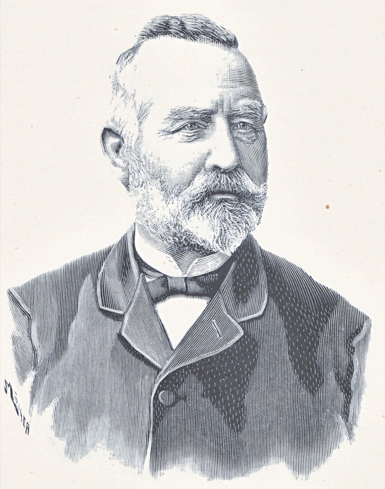 Businessman Mads Ellef Langaard, 1891. Engraving by Albert Møller (1864–1922) published 1891 in the journal Skilling-Magazin.